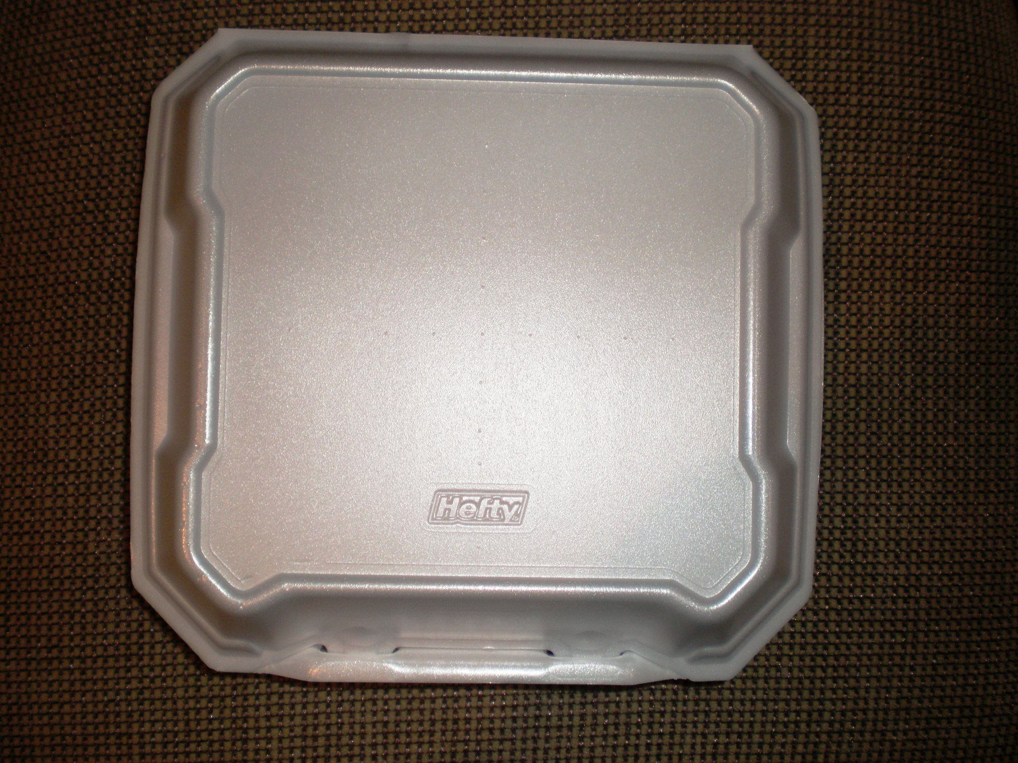 A Hefty square styrofoam food container. See Image:Hefty square styrofoam food container open.JPG.